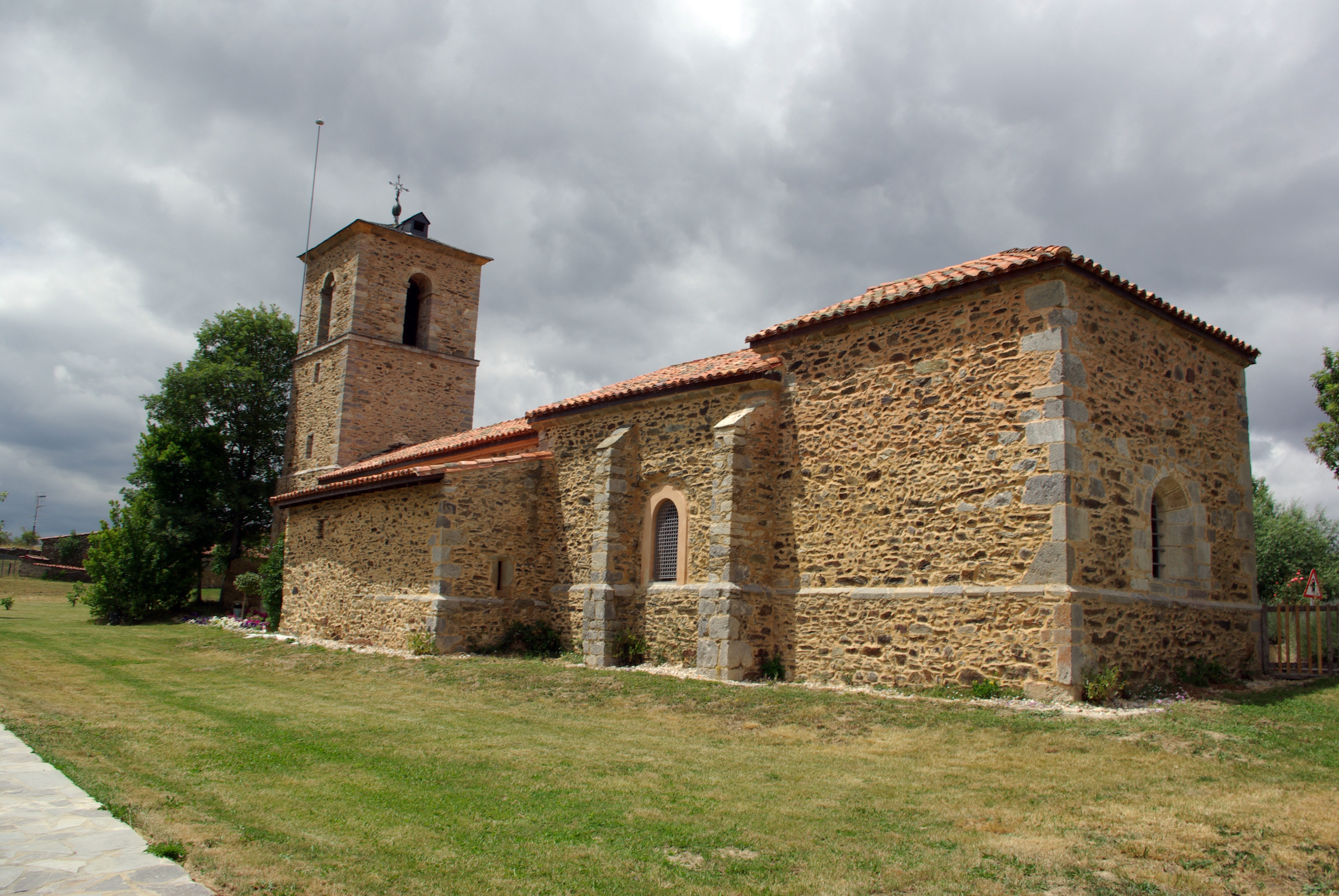 Sanctuary of Pandorado, Riello (León, Spain)